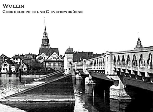 Wollin about 1920